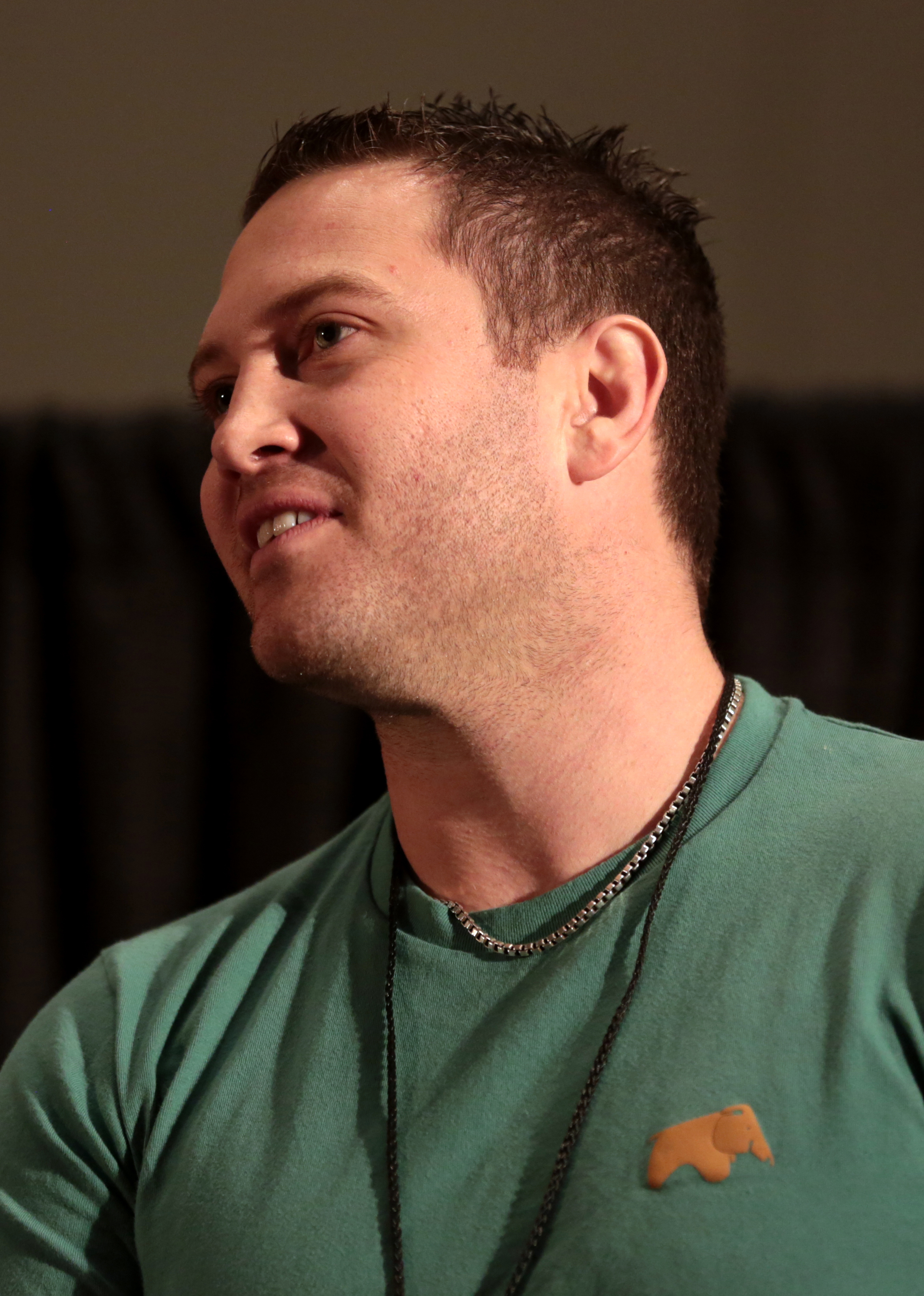 Bryce Papenbrook speaking at the 2018 Phoenix Comic Fest in Phoenix, Arizona.